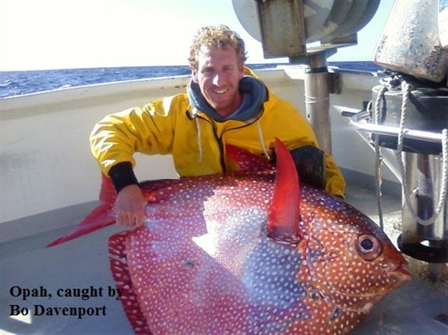 Lampris guttatus collected in the USA.